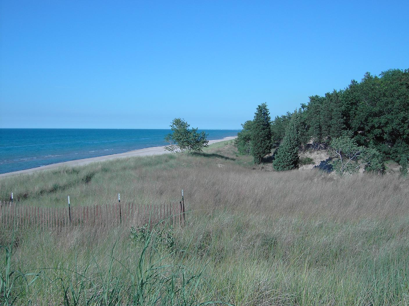 Grassy dunes at Indiana Dunes State Park